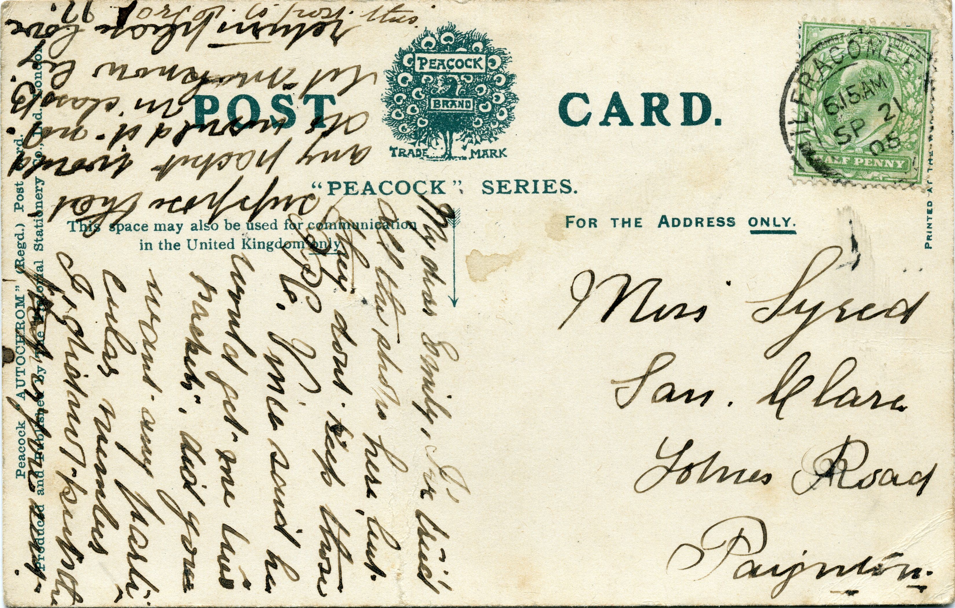 Reverse of 1905 tinted photo postcard of the stocks at Linton, by William Eastman Palmer, who later moved to Barnet. The photographer ran the family firm William Eastman Palmer & Sons in the Plymouth area in the 1860s and 1870s.